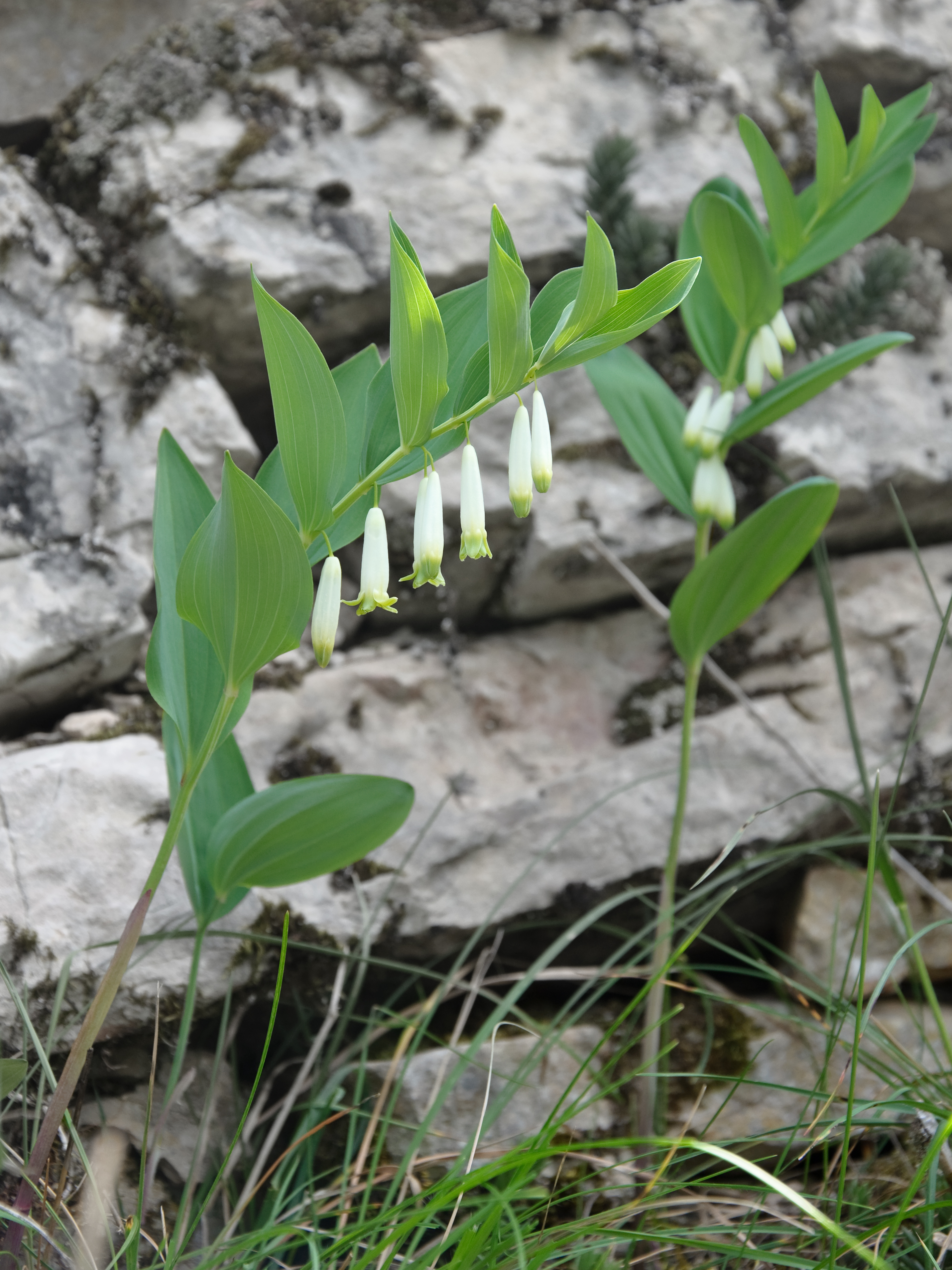 Angular Solomon's-seal (Polygonatum odoratum var. odoratum), near Sainte-Enimie, in the Gorges du Tarn, Lozère, France.